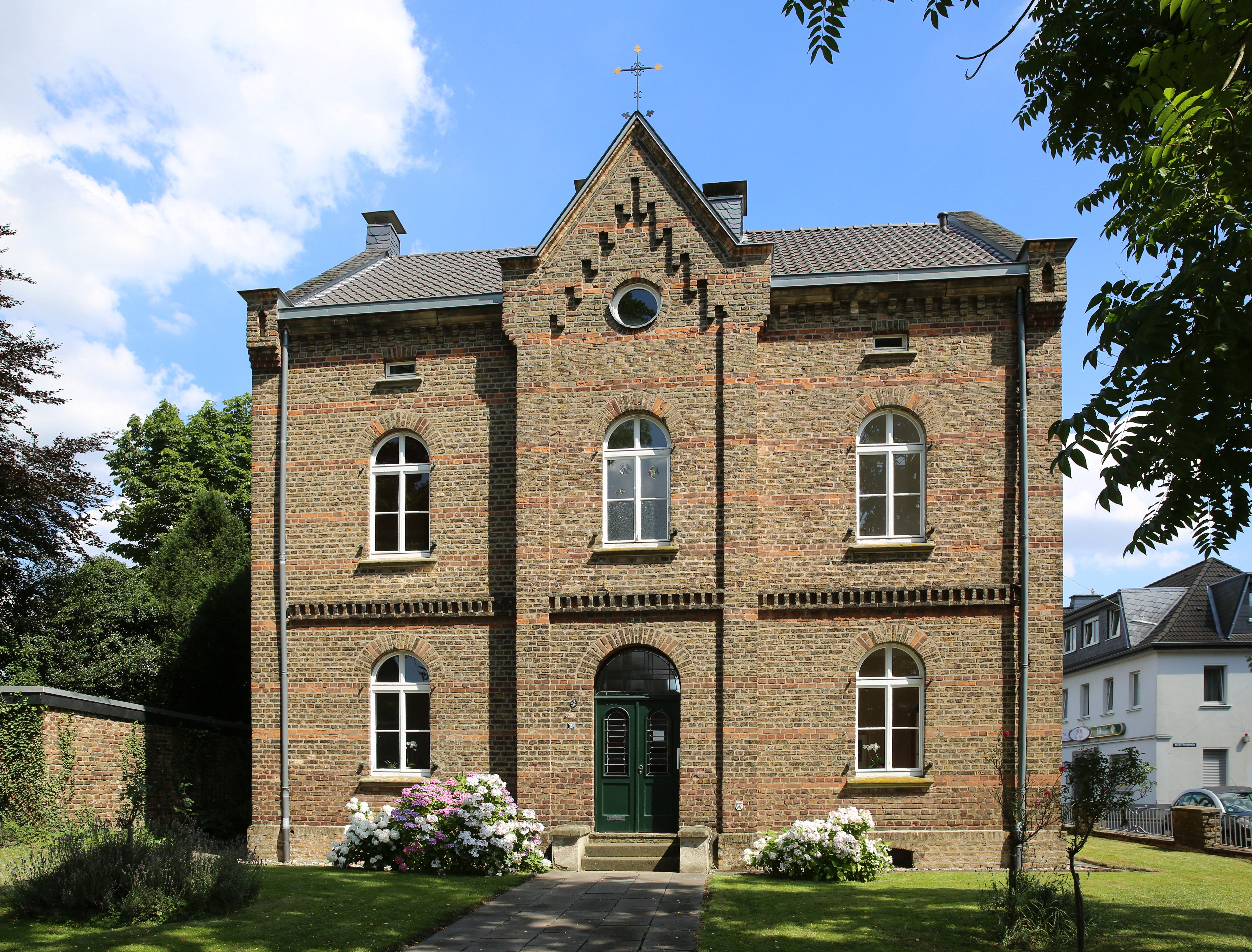 Parochial house of of Saint Gervasius - St. Protasius Church in Sechtem (Bornheim), Germany